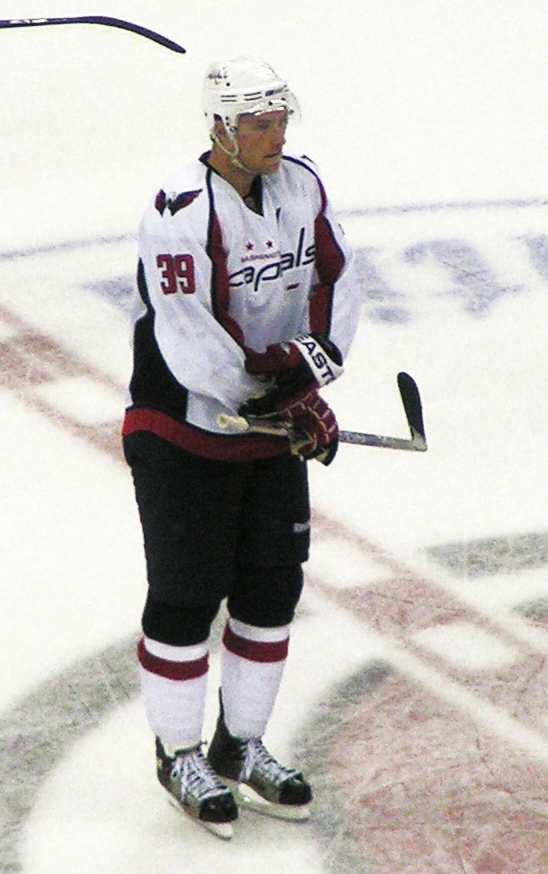 Dave Steckel plays with Capitals ant New Jersey